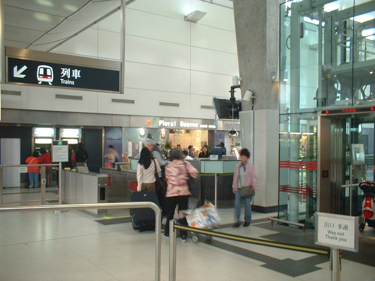 Tung Chung MTR Station, accessibility features of wheelchair gate and elevator shown.